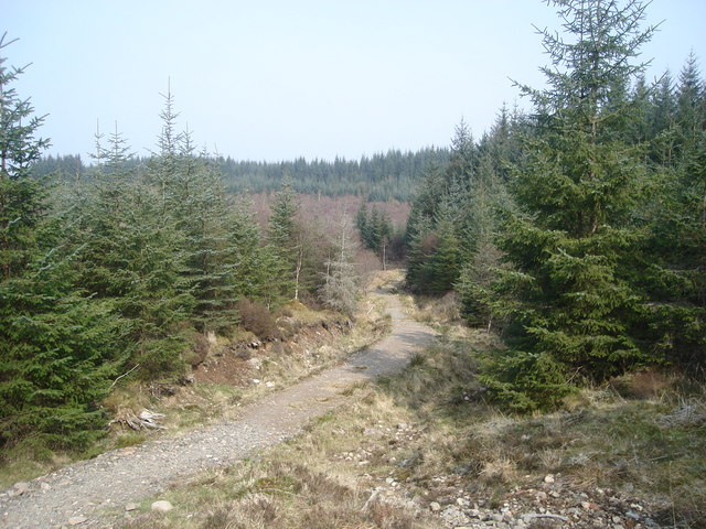 Looking north along forestry walk in Fearnoch Forest